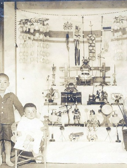 Children's Day (Japan)